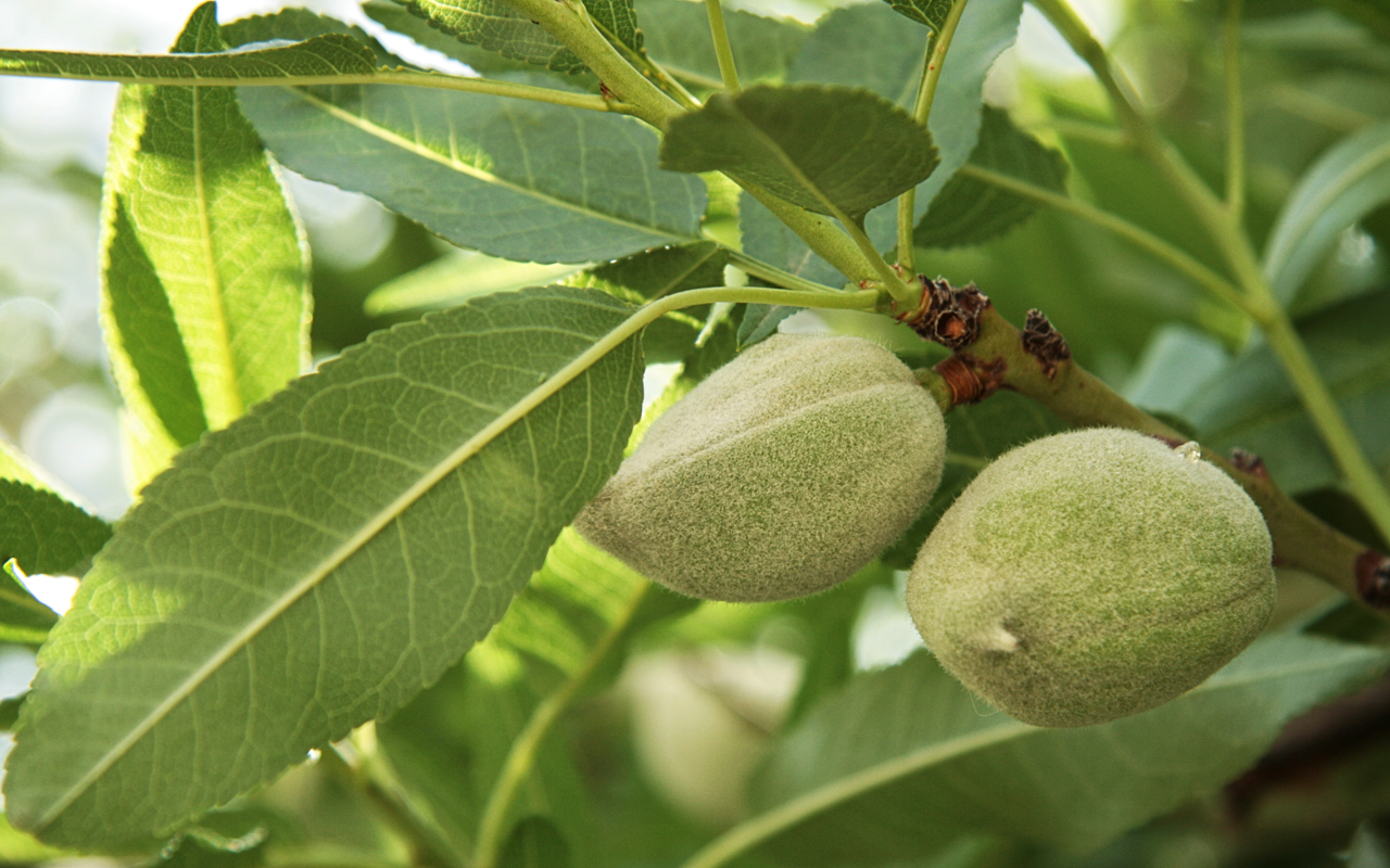 Almonds, Cyprus